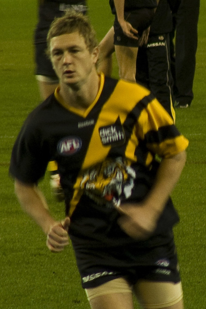 Richmond vs Essendon warm up MCG night match